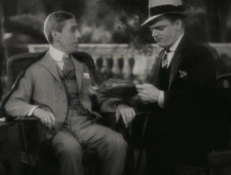 George Arliss and James Cagney in The Millionaire (1931) - trailer (cropped screenshot).